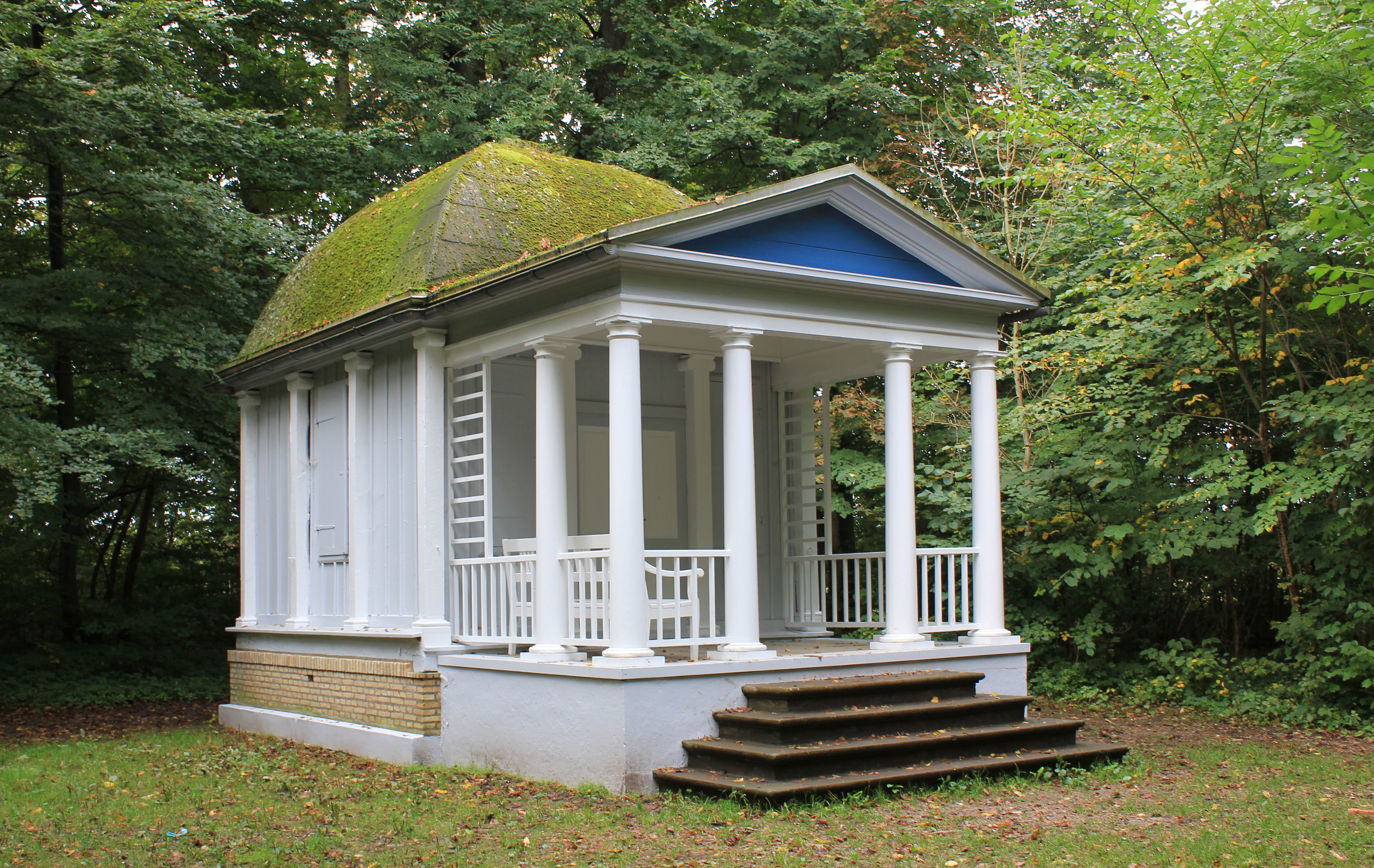 Pavilion in Christinero a romantic garden facility created in the end of the 1700s by Christina Friederica von Holsteiner near Christiansfeld, Denmark.